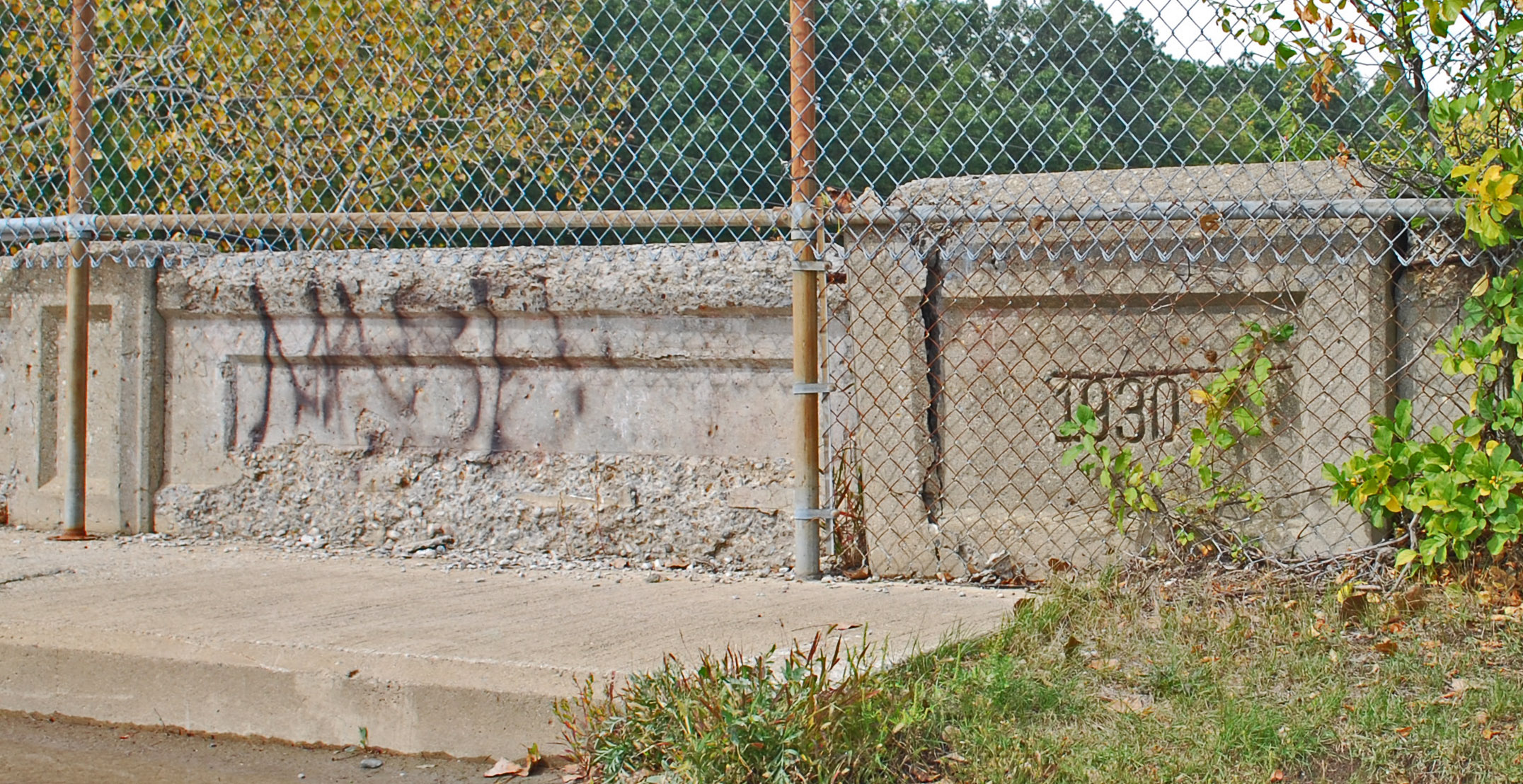 Trowbridge Road-Grand Trunk Western Railroad Bridge Bloomfield Hills MI